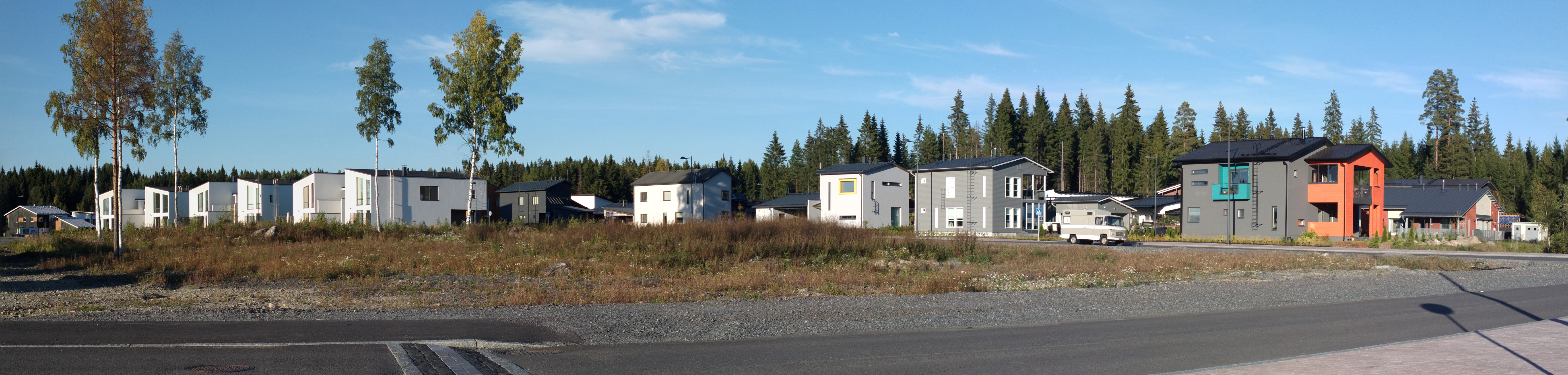 Vuores suburb in Tampere.